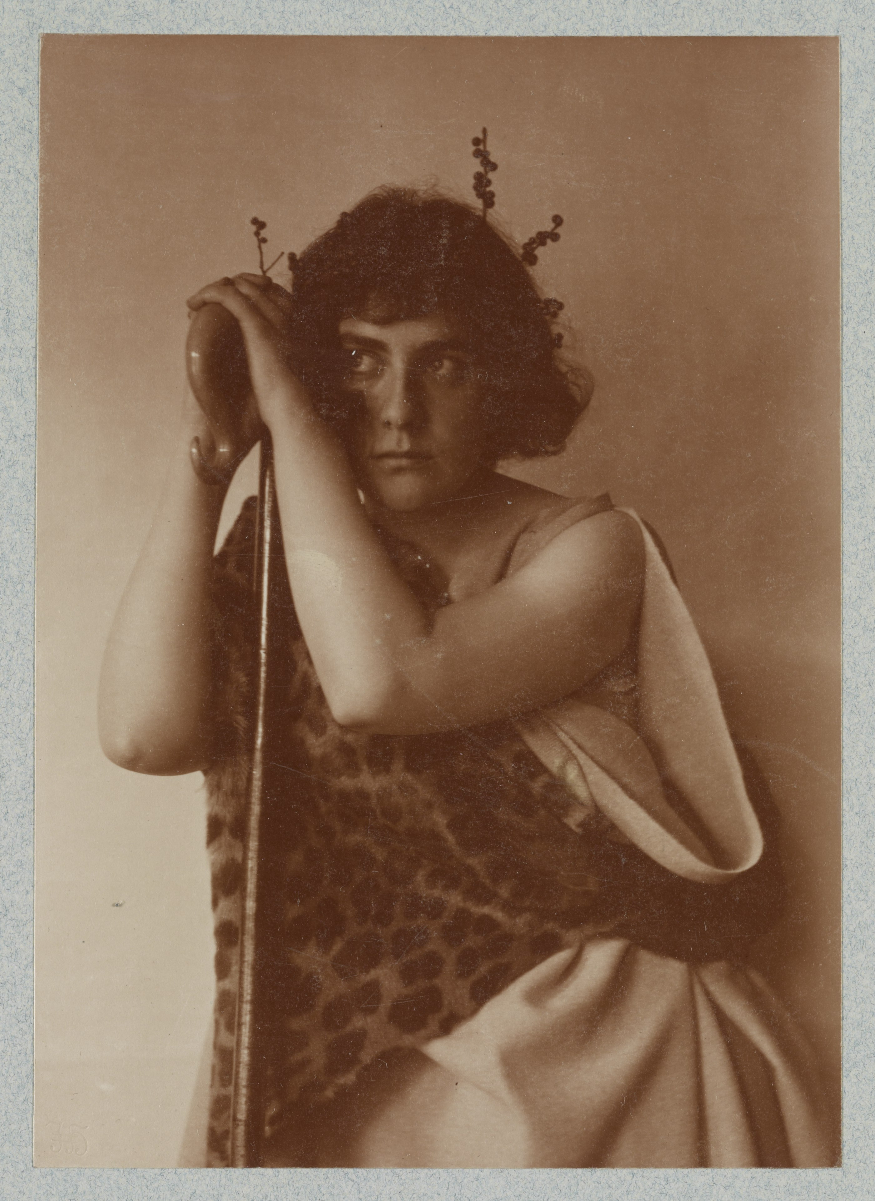 Title: Woman (Ethel Reed) in nymph costume as Chloe with leopard skin, berry branches in hair, and shepherd's crook Abstract/medium: 1 photographic print on single mount, cream with blue fibers : silver printing-out paper ; 15.3 x 10.9 cm (photo), 35.6 x 30.5 cm (mount)